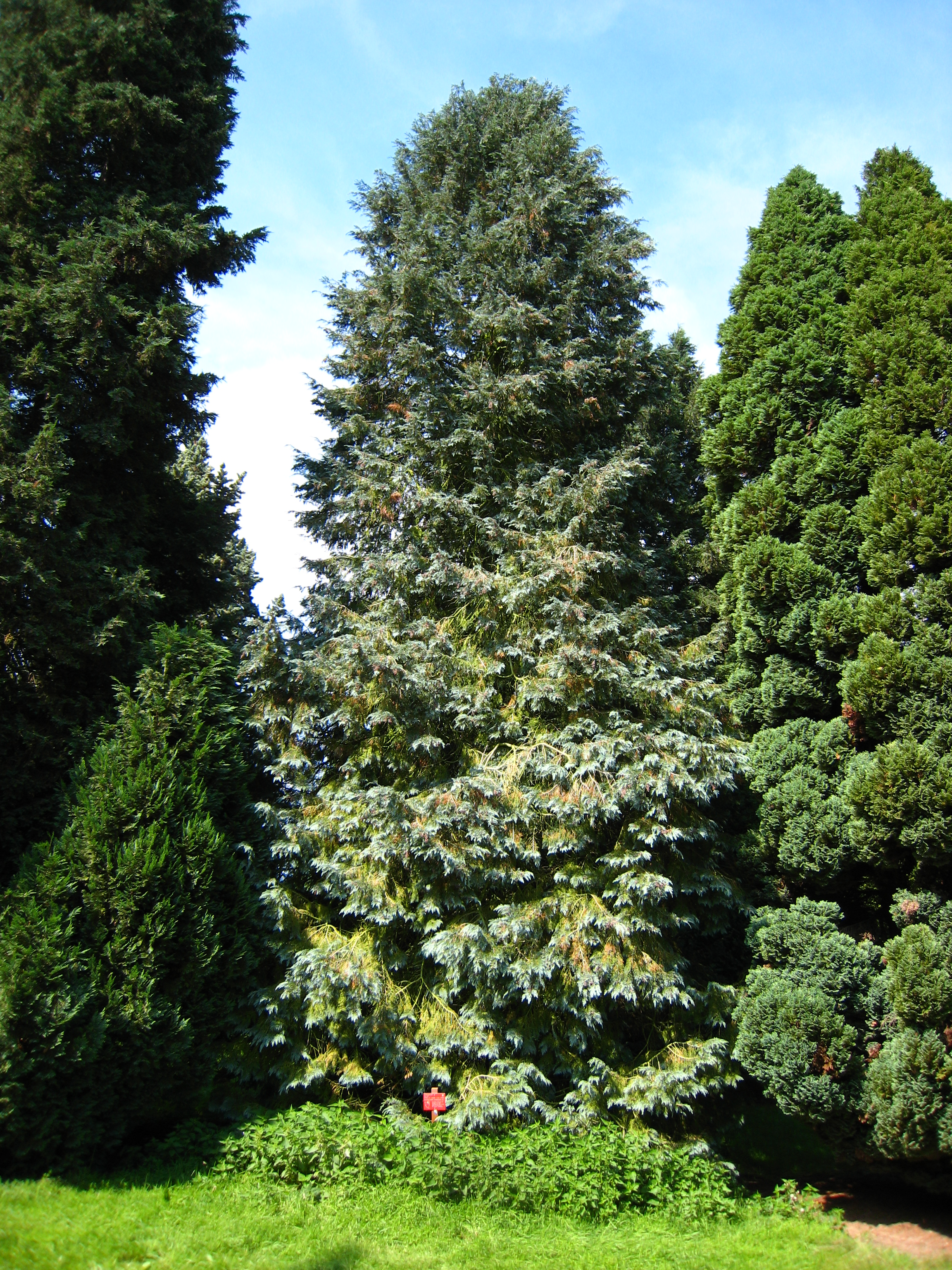 Chamaecyparis lawsoniana in the Arboretum de Chèvreloup in Rocquencourt